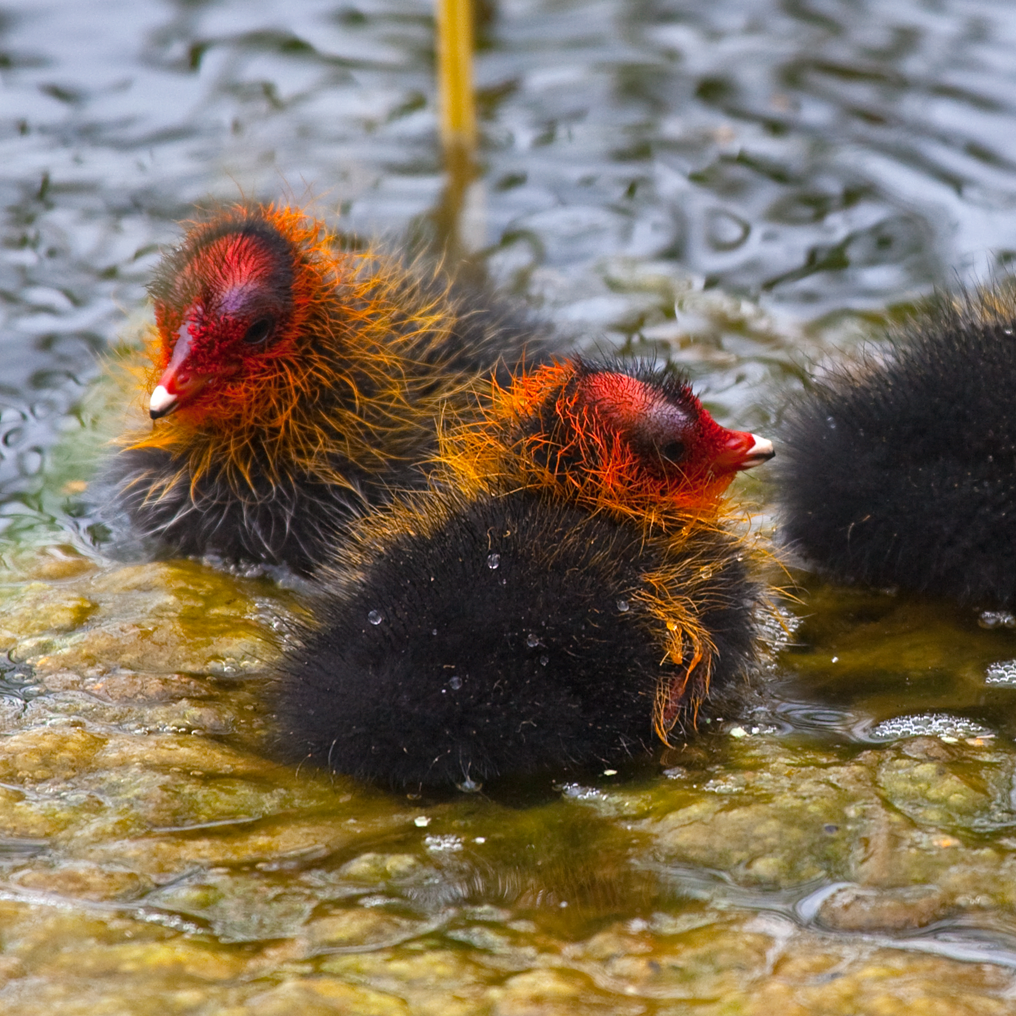 Coot Fulica atra family near Vaxholm Stockholm Sweden July 2012